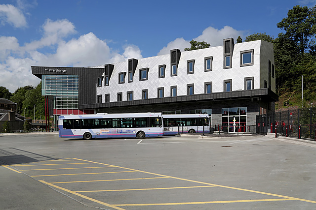 Galashiels Transport Interchange in Galashiels, Great Britain, shown in August 2015